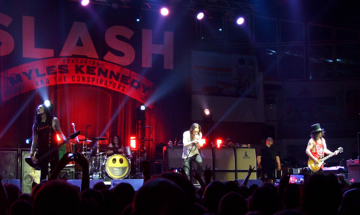 The American rock guitarist Slash performing live with his band at Hristo Botev hall, Sofia, during their World On Fire Tour 2015